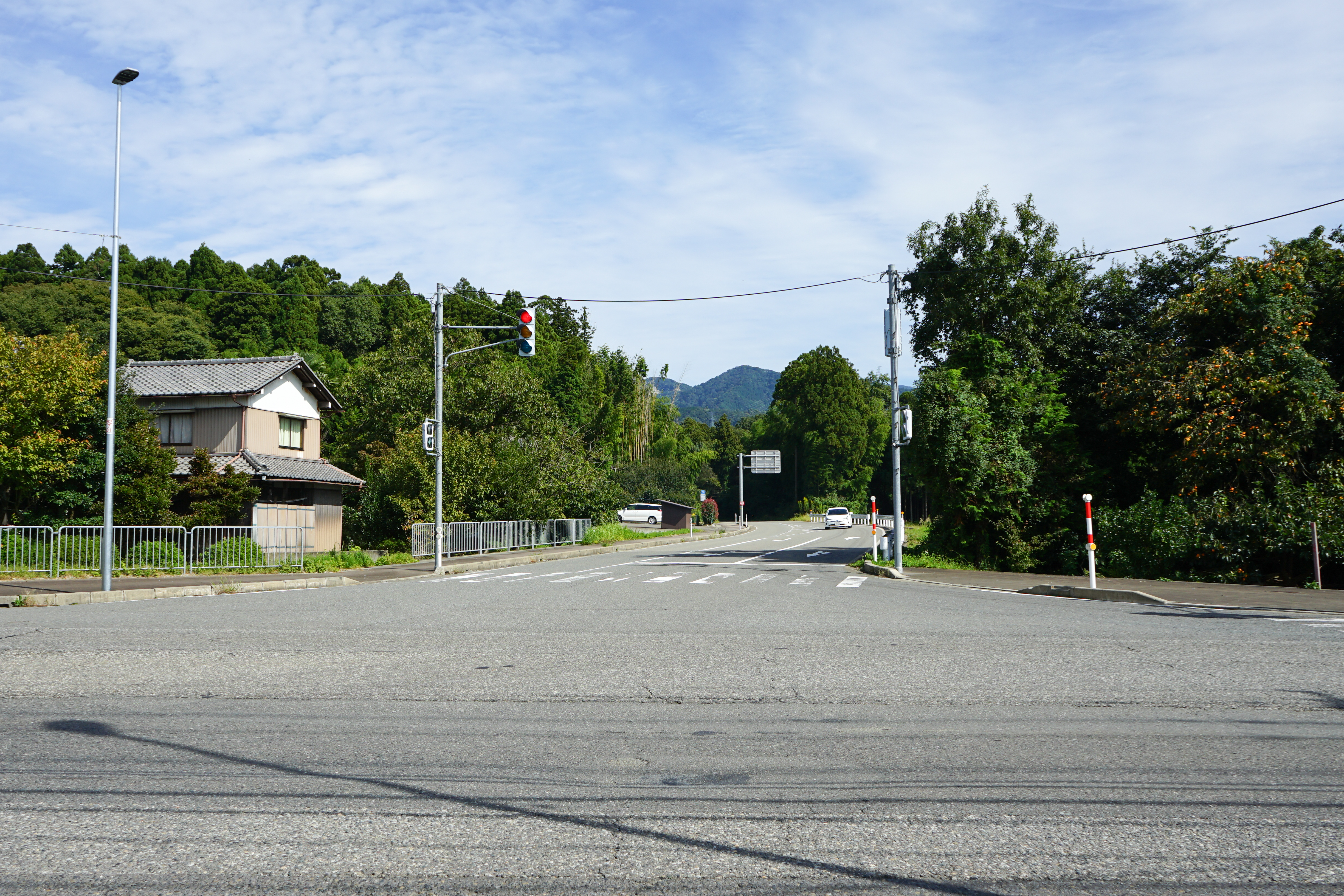 Maedani Crossroads, Awara-shi, Fukui Prefecture, Japan